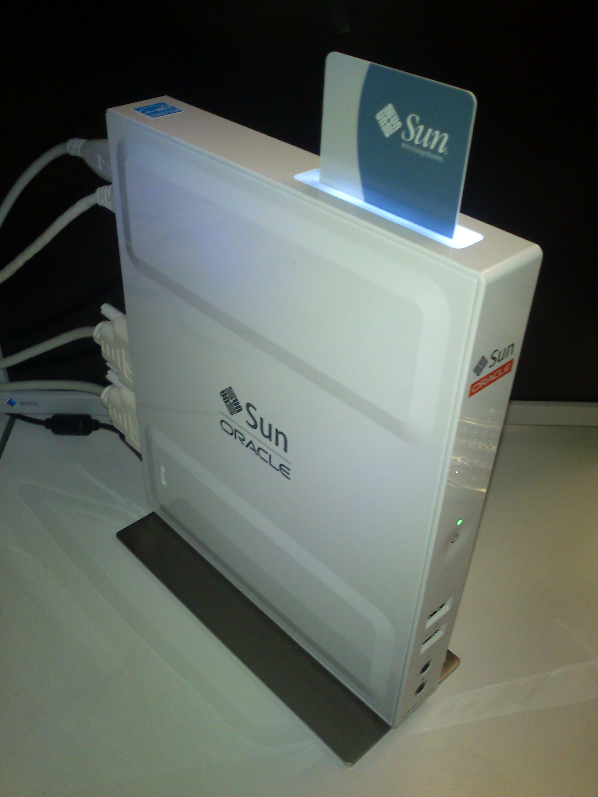 SunRay 3 Plus ultra thin client by Oracle